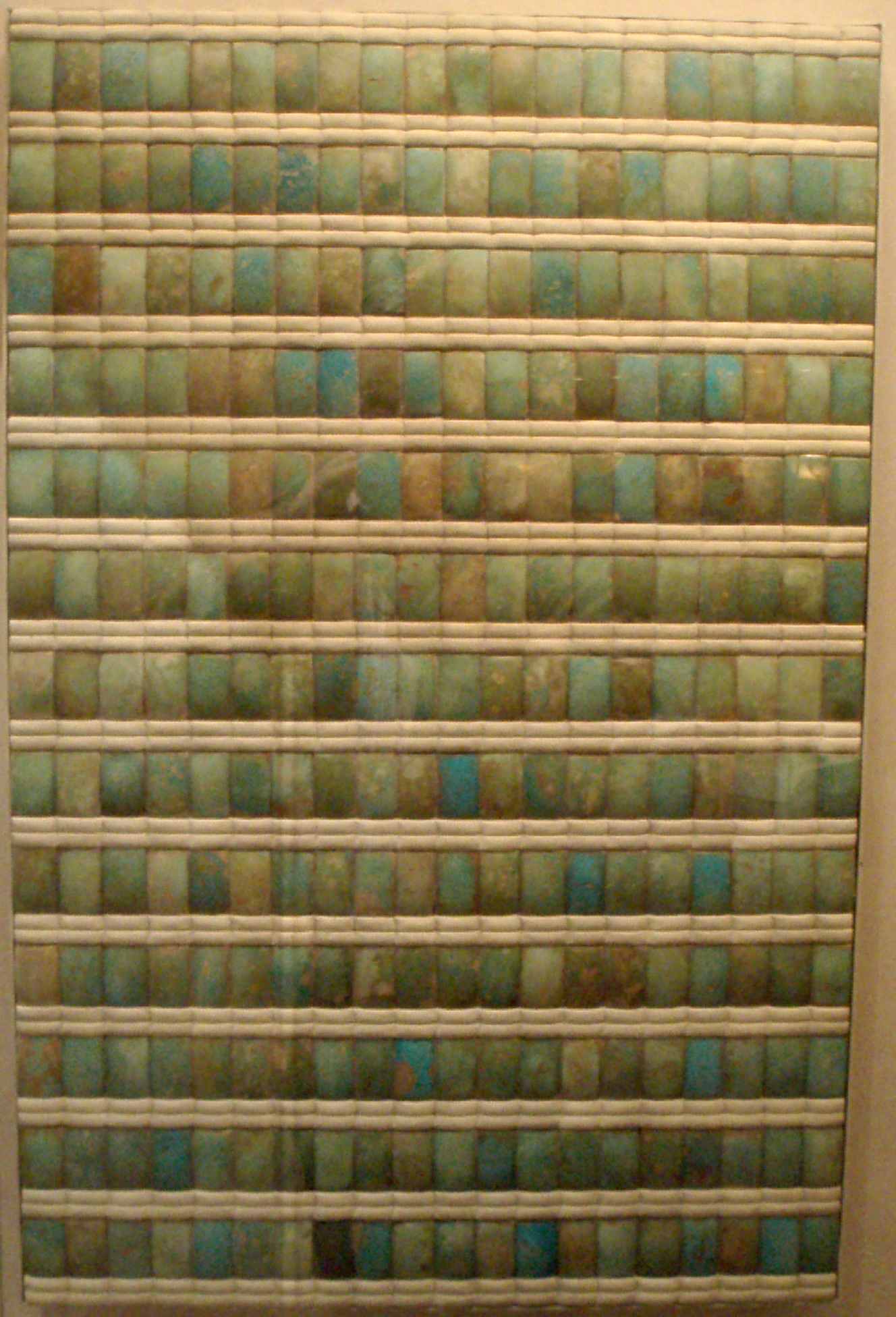 Wall decoration from the pharaoh Djoser's funerary complex.